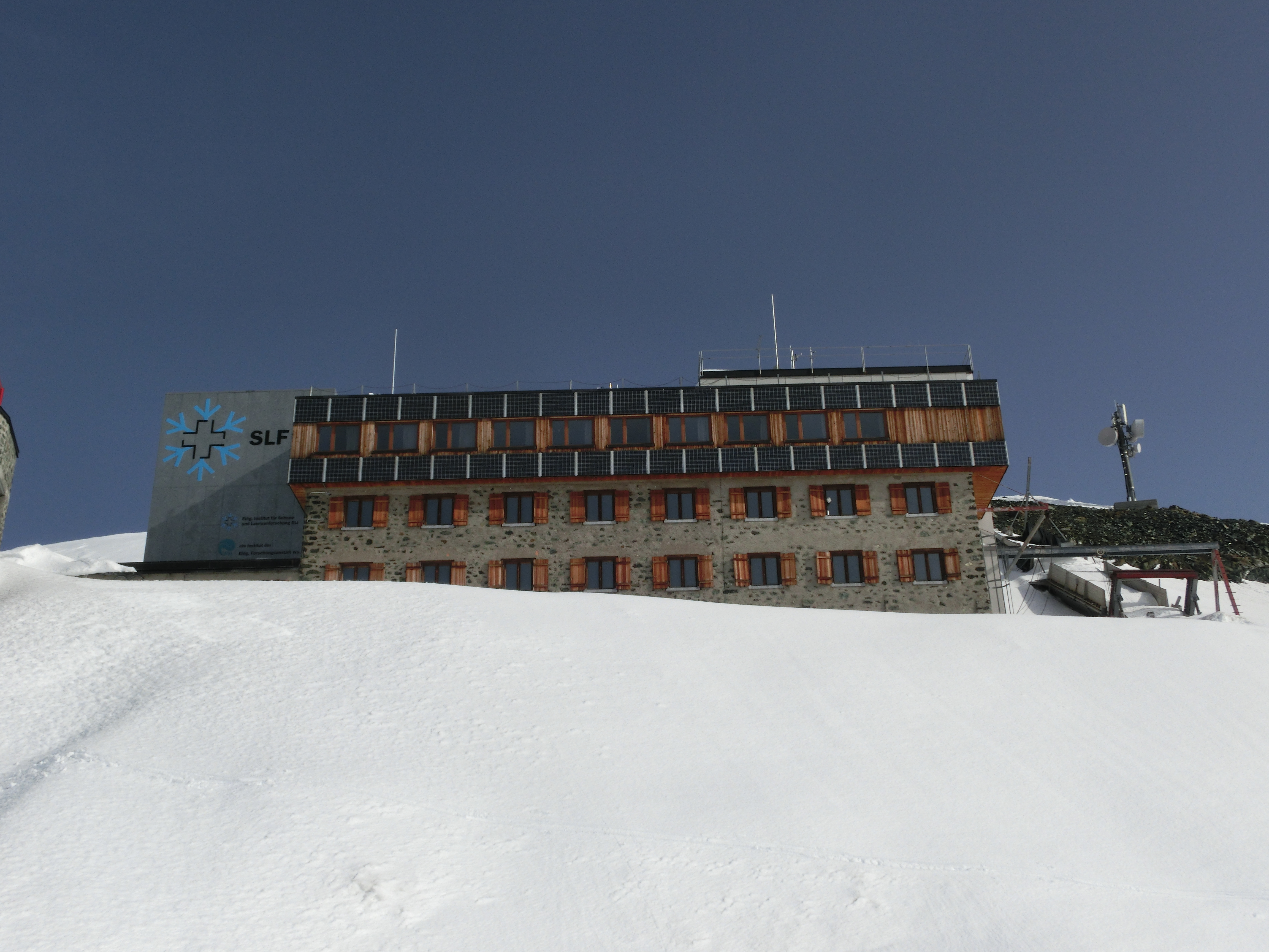 The former main building of WSL Institute for Snow and Avalanche Research SLF on the Weissfluhjoch, Davos.